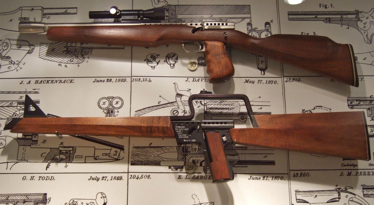 Gyrojet at National Firearms Museum